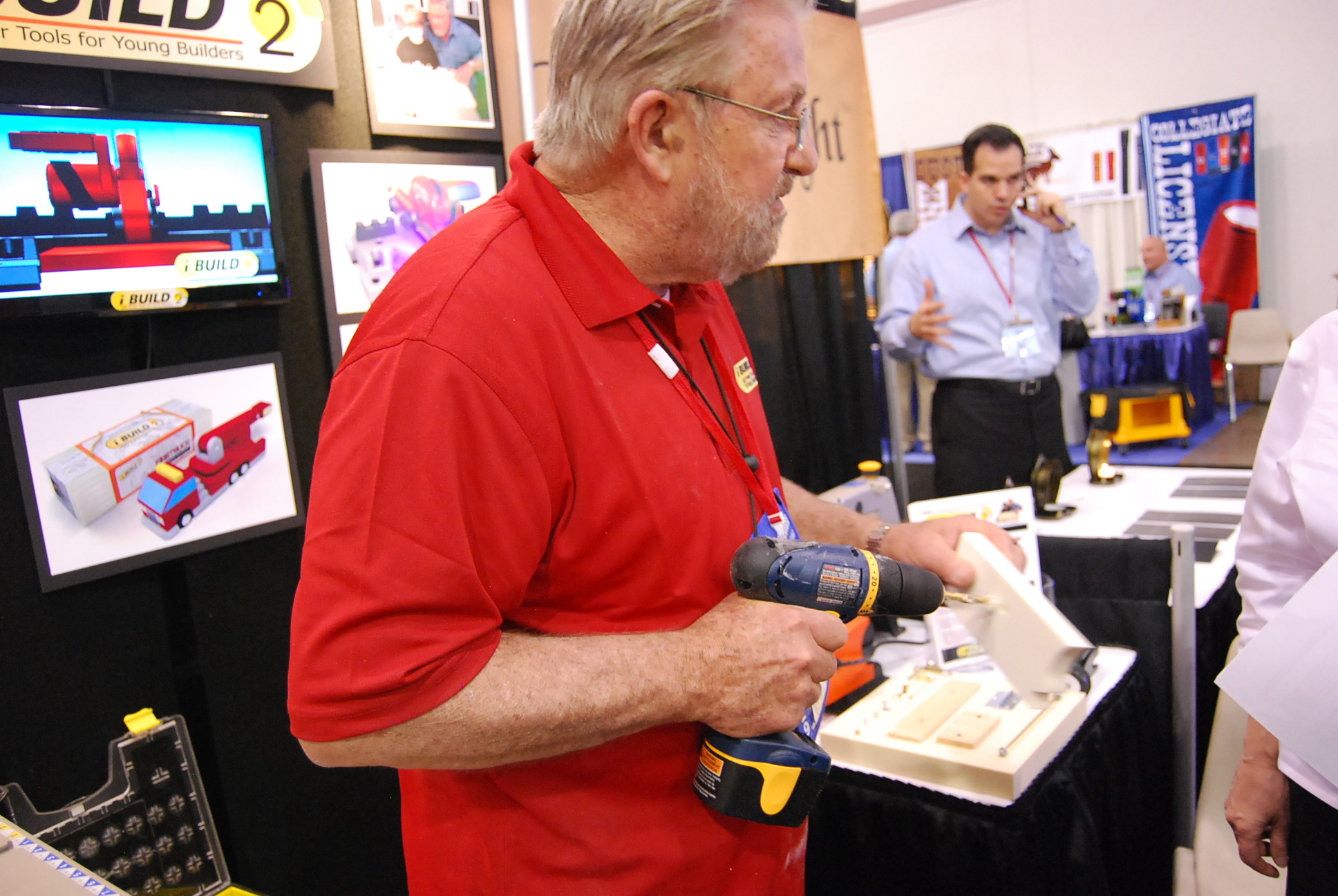 2010 National Hardware Show Please feel free to use these photos but please provide attribution and link to